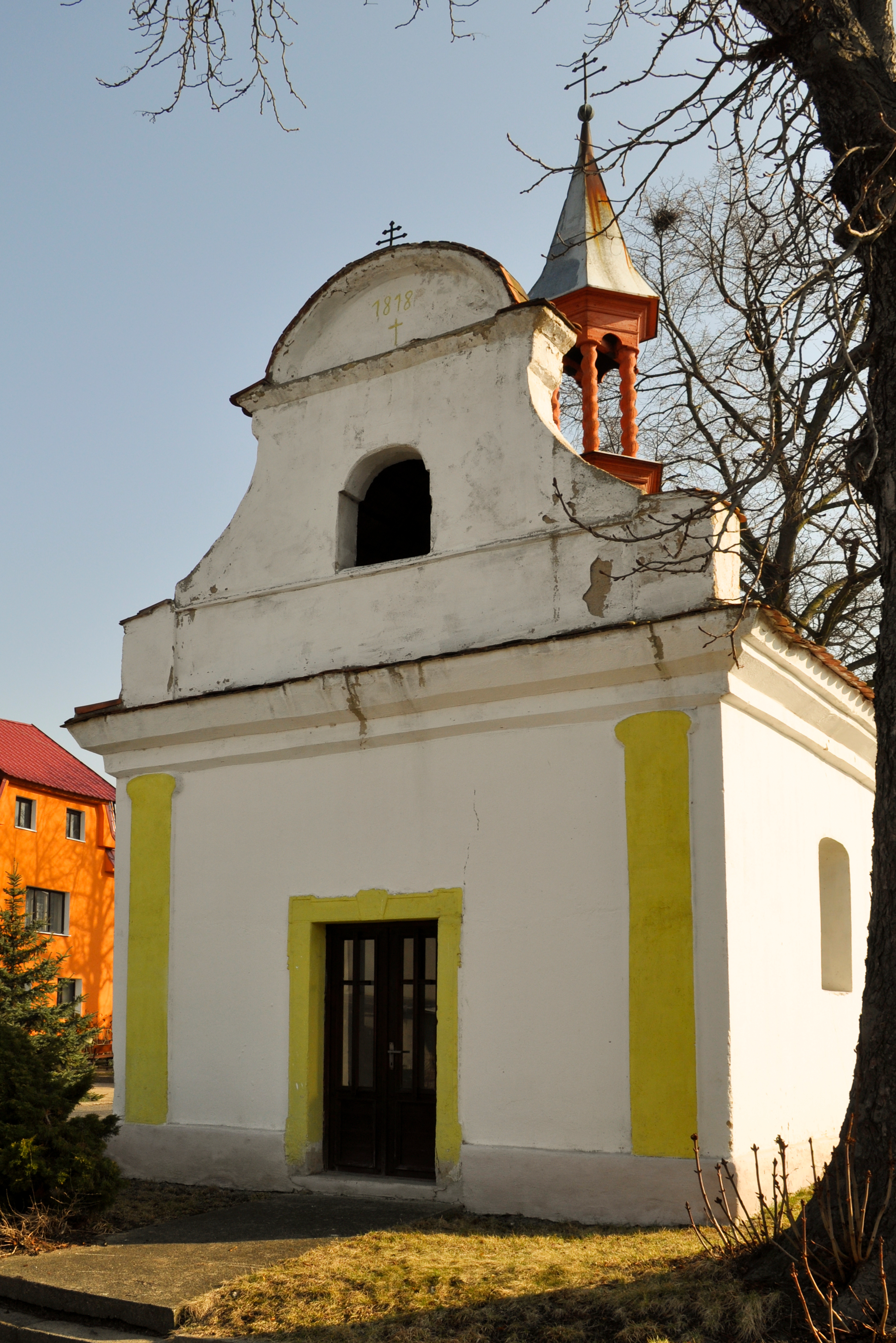 Chaple, Stračí, Ústí nad Labem Region